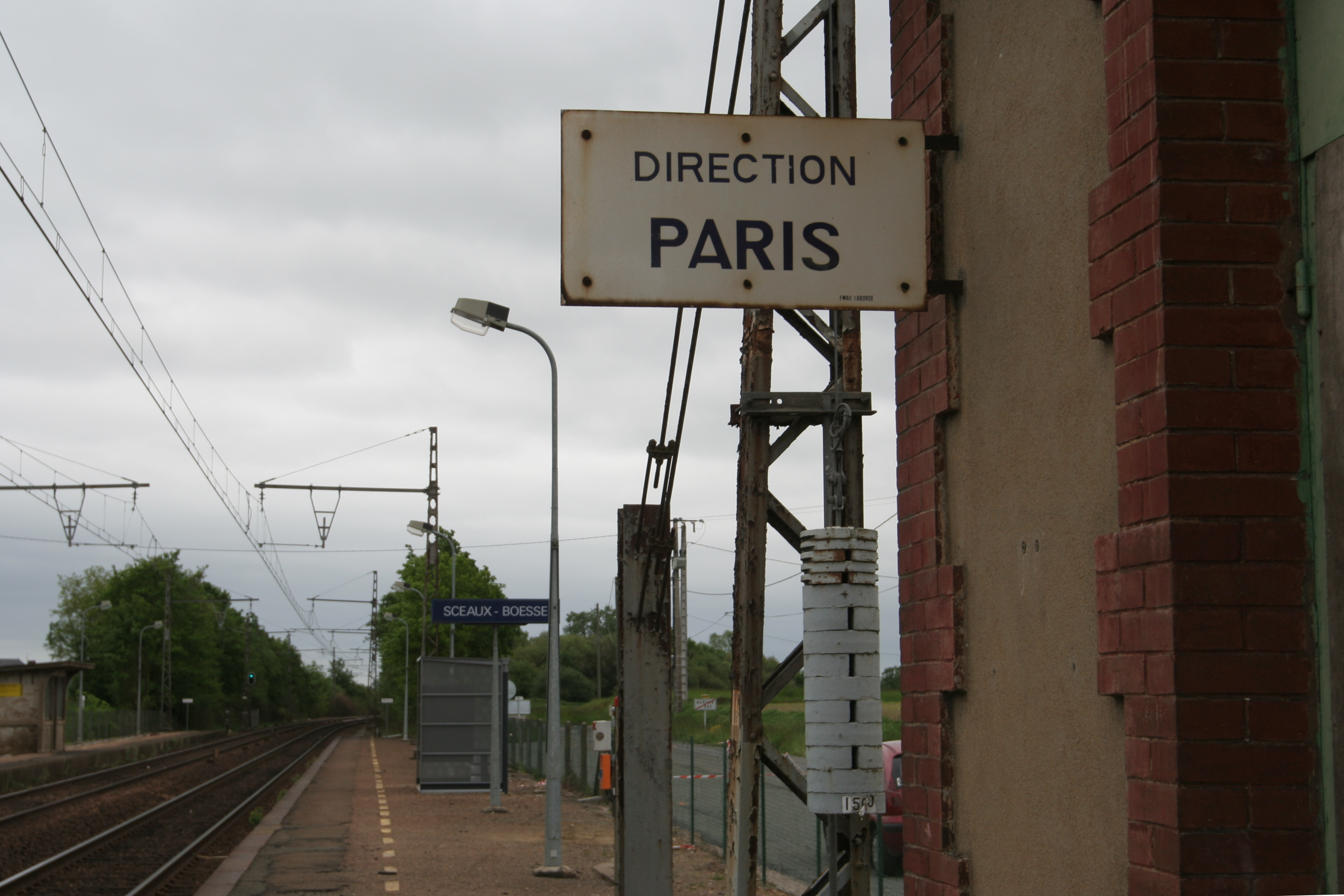 Train station of Boëssé-le-Sec.